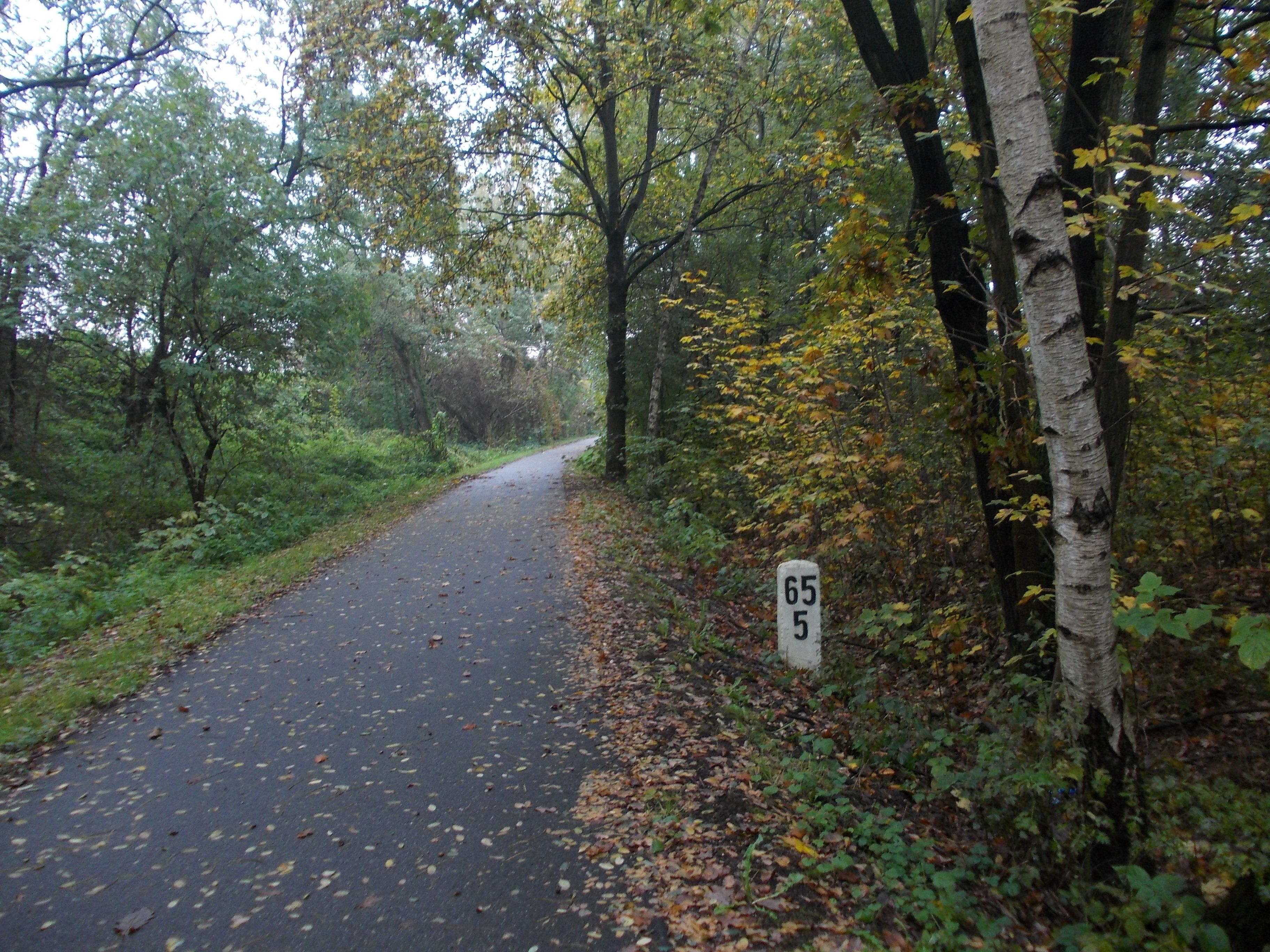 Cycling path on the embankment of the former Mulde Valley Railway line near Dorna (Grimma, Leipzig district, Saxony)